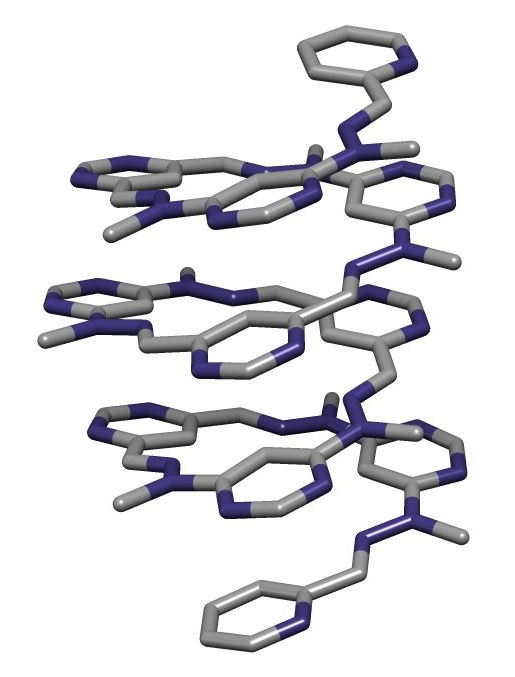 This is a picture generated from crystal structure data reported by Jean-Louis Schmitt, Adrian-Mihail Stadler, Nathalie Kyritsakas, Jean-Marie Lehn in Helvetica Chimica Acta, 1598-1624, 2003. It shows a helical foldamer. It was made by myself and is free to be used by all.